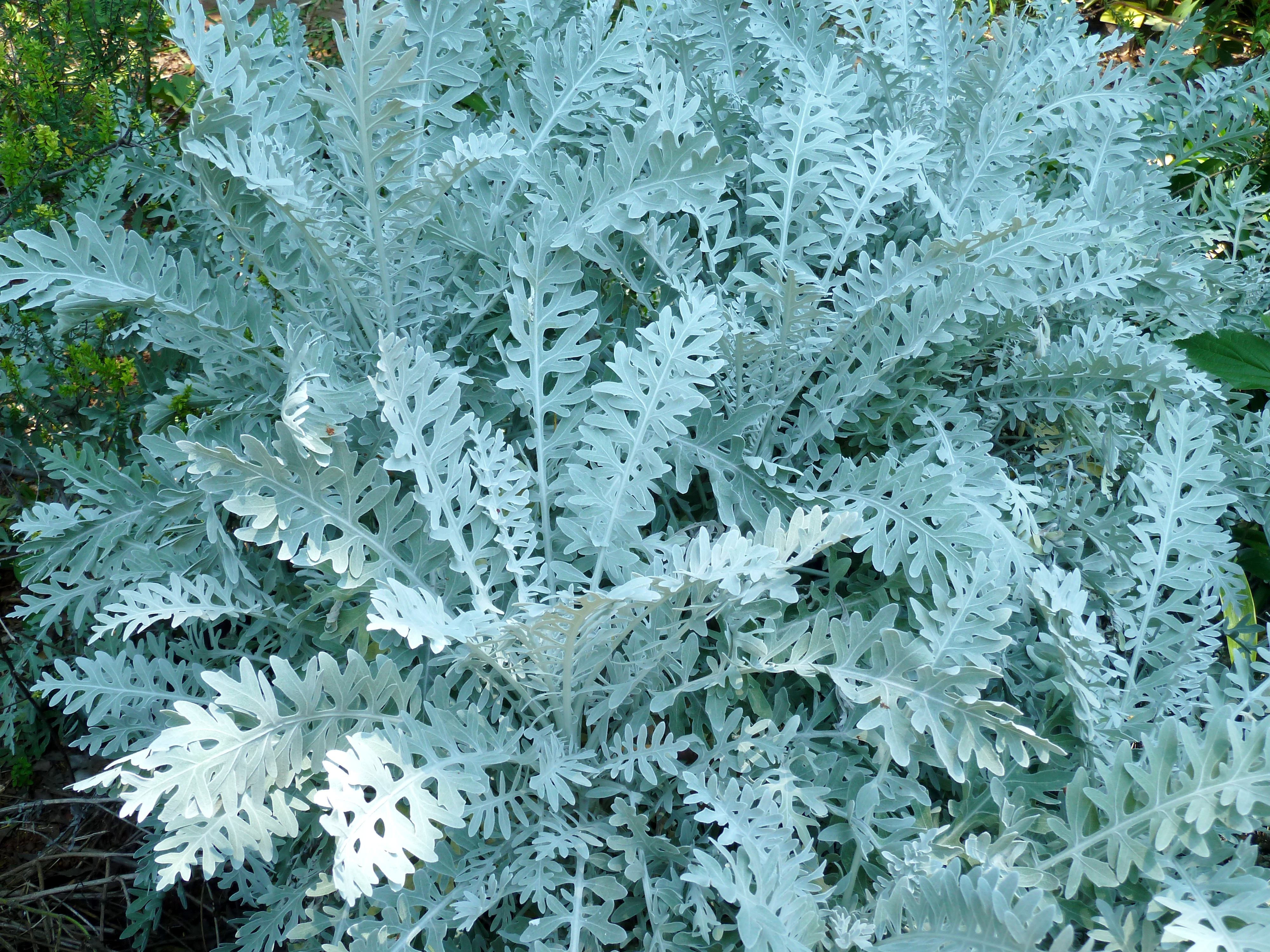 Dusty miller (Centaurea cineraria) — in the Manie van der Schijff Botanical Garden, Pretoria